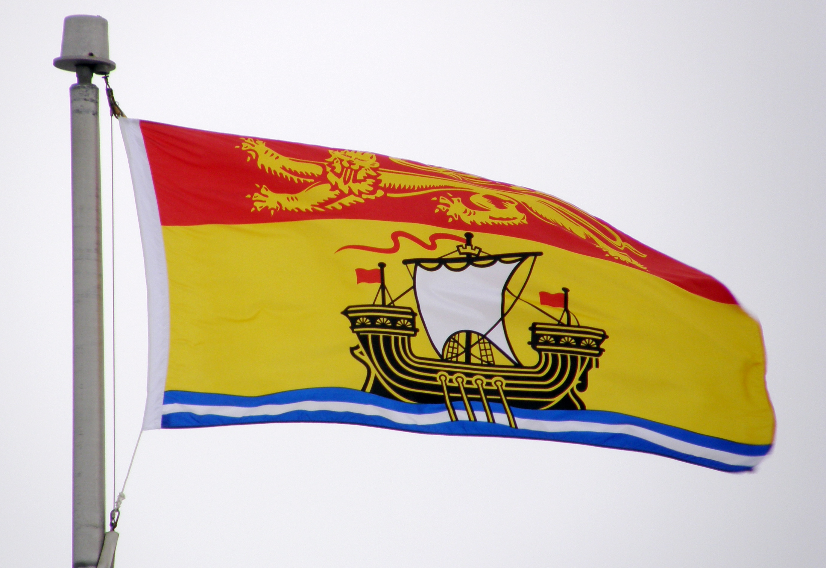 The flag of New Brunswick, flying in Moncton, New Brunswick